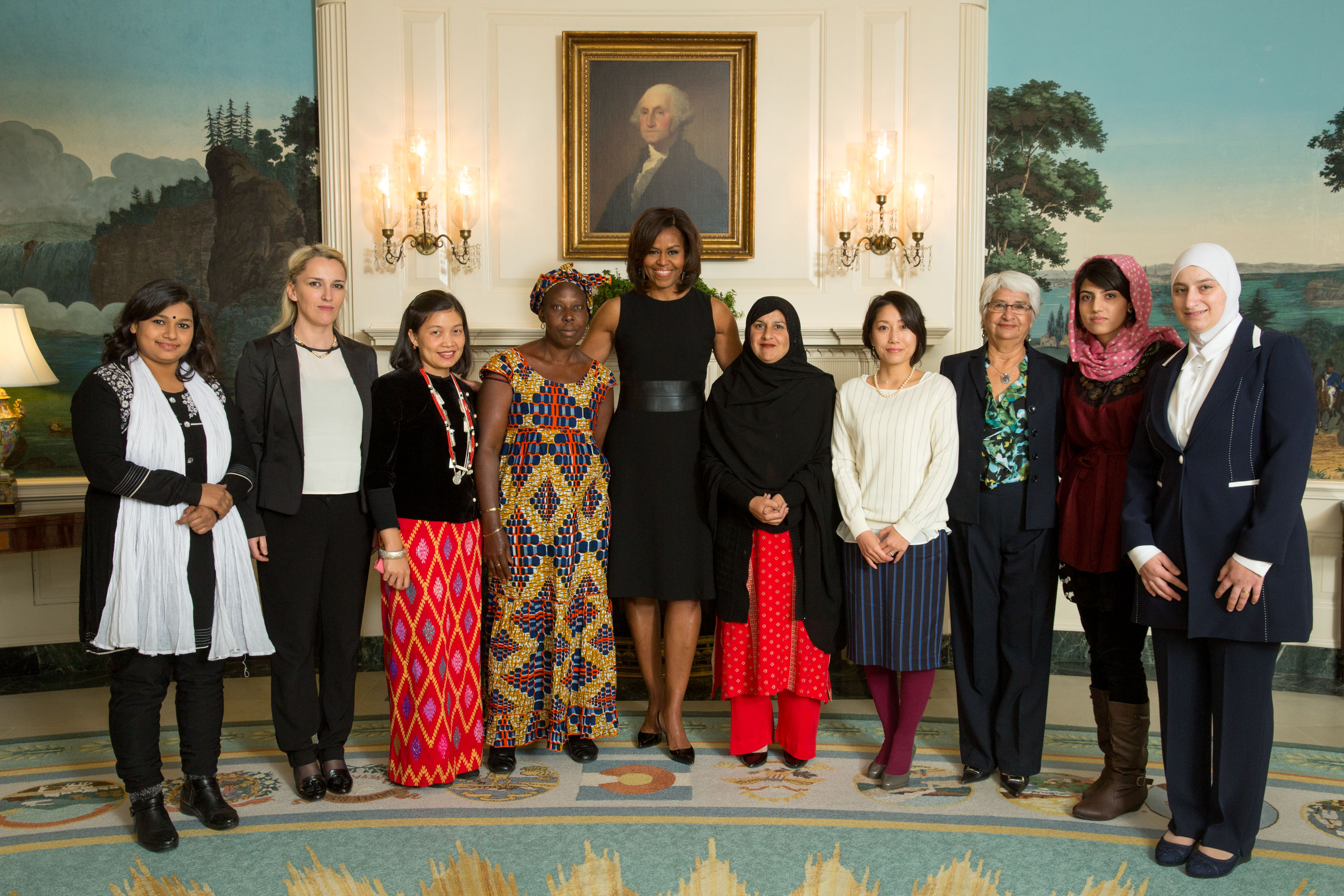 First Lady Michelle Obama greets recipients of the State Department 2015 International Women of Courage Award recipients in the Diplomatic Reception Room of the White House March 7, 2015. From left: Nadia Sharmeen, Bangladesh; Arbana Xharra, Kosovo; May Sabe Phyu, Burma; Marie Claire Tchecola, Guinea; Tabassum Adnan, Pakistan; Sayaka Osakabe, Japan; Rosa Julieta Montano Salvatierra, Bolivia; Captain Niloofar Rahmani; Afghanistan; Majd Chourbaji, Syria. (Official White House Photo by Chuck Kennedy)